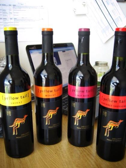 Yellow tail wine product of australia.